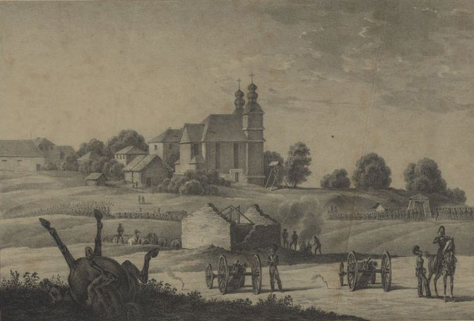 Biešankovičy, Church (28 Julius)